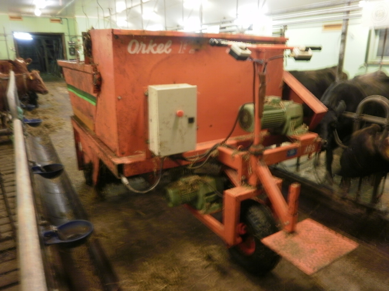 Agricultural tools